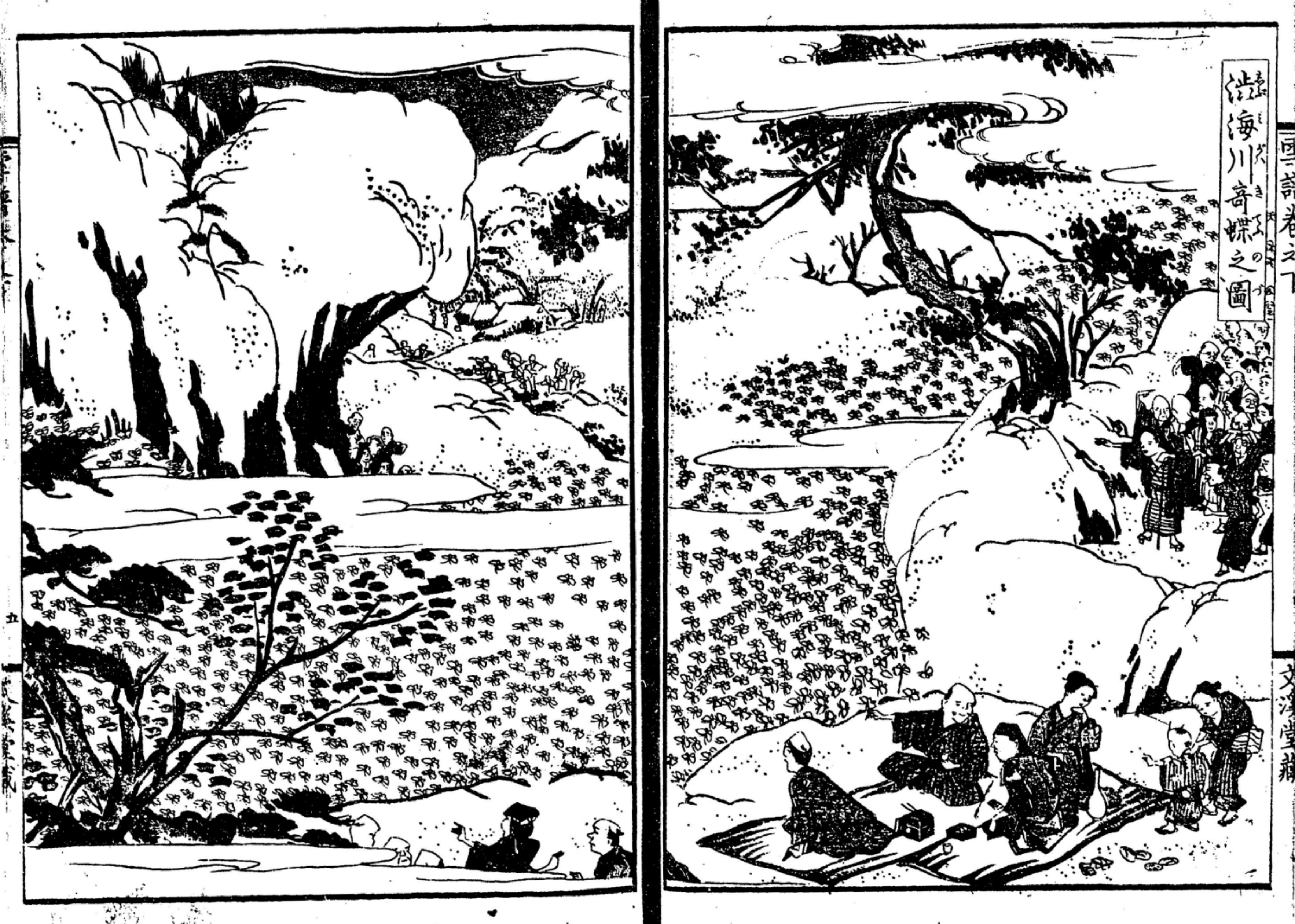 "Figure of strange butterflies at Shibumi River" from "Hokuetsu Seppu"